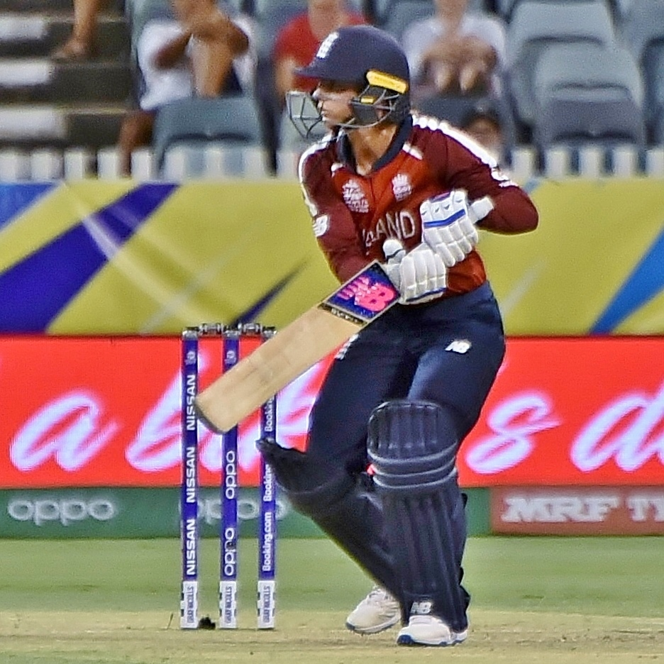 Danielle Wyatt watches herself being caught by Lizelle Lee off the bowling of Ayabonga Khaka at the end of her short innings for England against South Africa during their 2020 ICC Women's T20 World Cup match at the WACA Ground in Perth, Australia